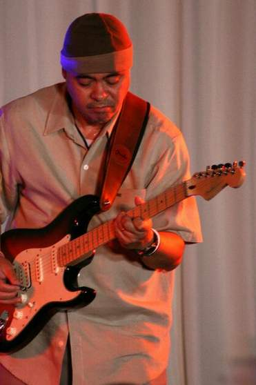 Johnny Alegre plays the guitar